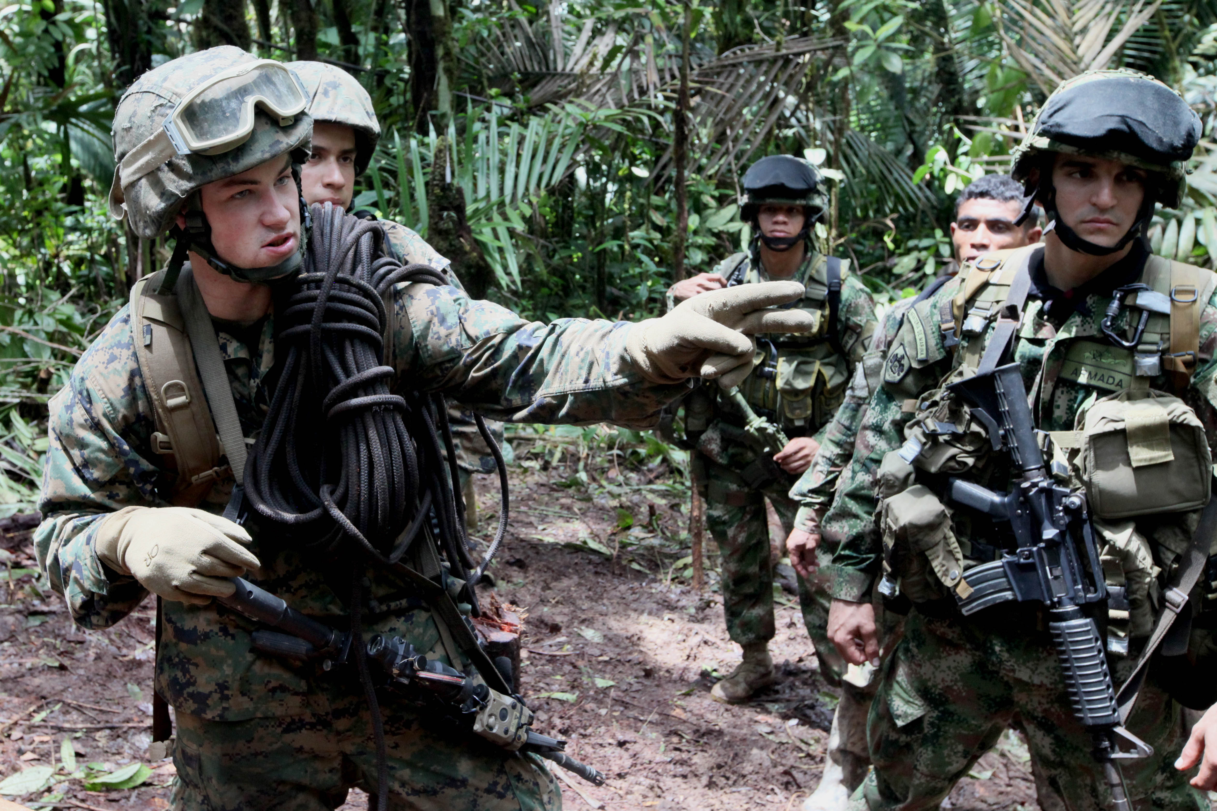 U.S. Marine Corps Cpl. Blaho instructs his squad on where to cross a river while training with Colombian marines on jungle warfare in Colombia on Aug. 2, 2010. The Marines are participating in Partnership of the Americas/Southern Exchange, a combined amphibious exercise designed to enhance cooperative partnerships with participating maritime forces. Blaho is with 4th Platoon, Charlie Company, 3rd Assault Amphibian Battalion, 1st Marine Division.